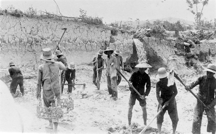 Reproduction from negative. The Dutch East Indies was one of the largest tin producers of the world, accounting for 20 percent of world production in 1940. Most tin came from the islands of Banka and Billiton Singkep, all located on the east coast of Sumatra. Many of the miners, like those shown here, were ethnic Chinese.